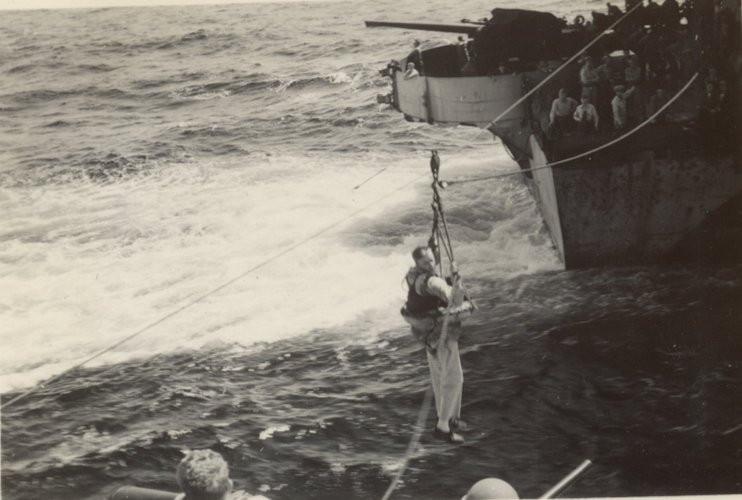 Pilot Transfer by "breeches buoy" (basket) from USS O'Flaherty (DE-340) back to CVE. Possible "swap" for Ice Cream